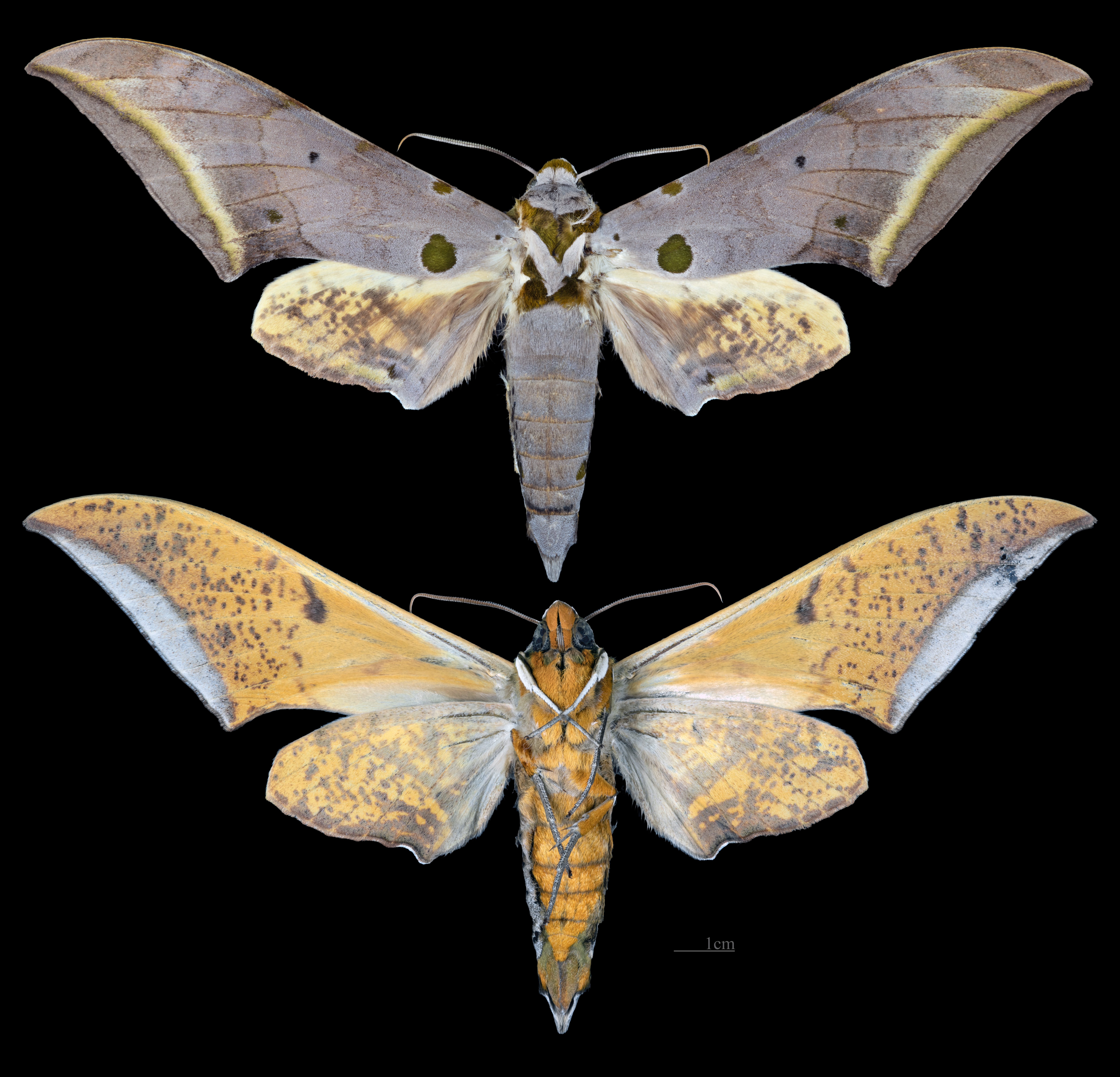 Ambulyx semiplacida - Two views of same specimen Collection of the Mathematician Laurent Schwartz